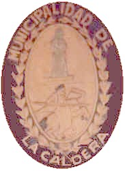 Coat of The Caldera.